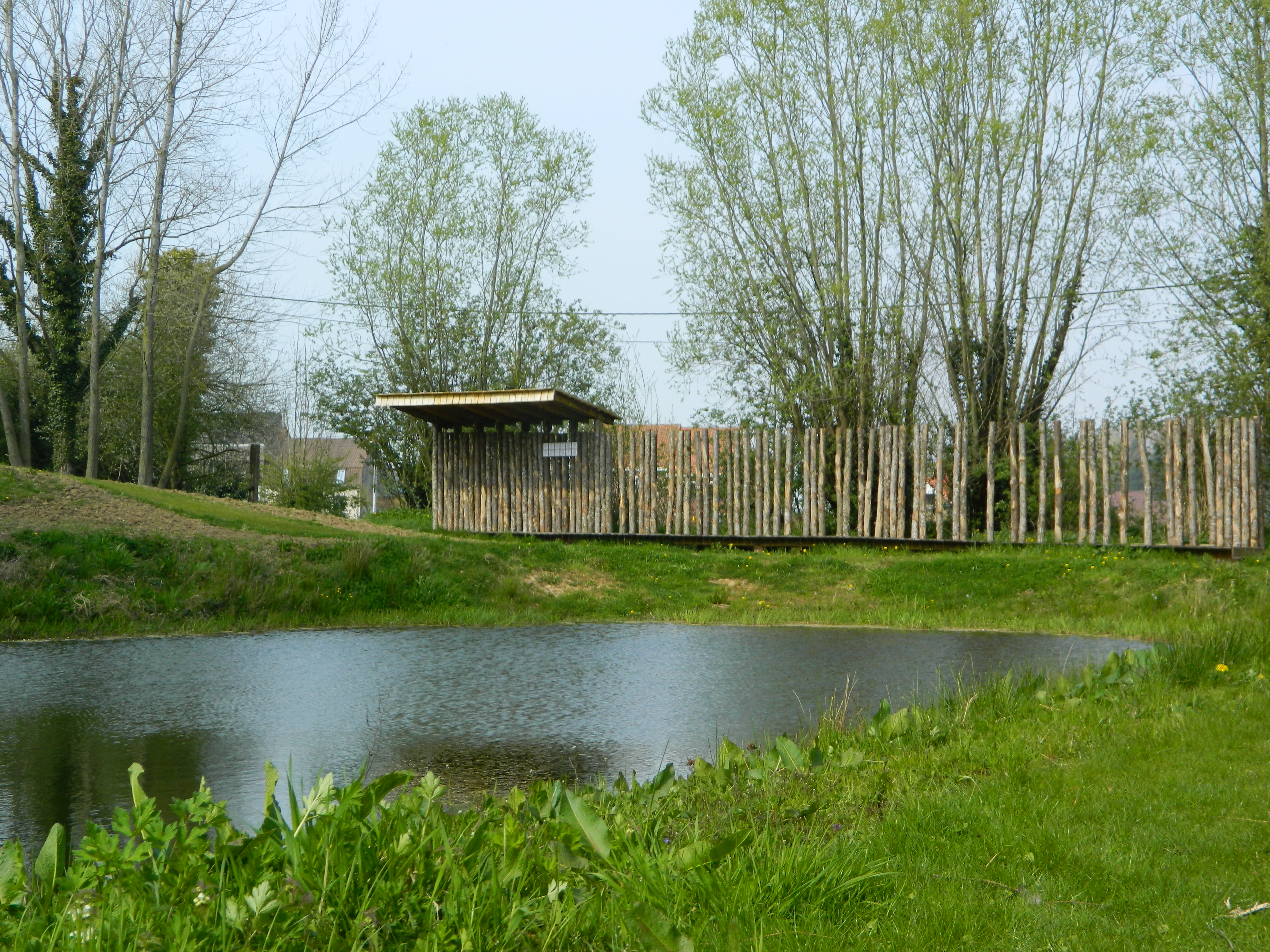 Luifel in de gedachtenistuin in Westouter